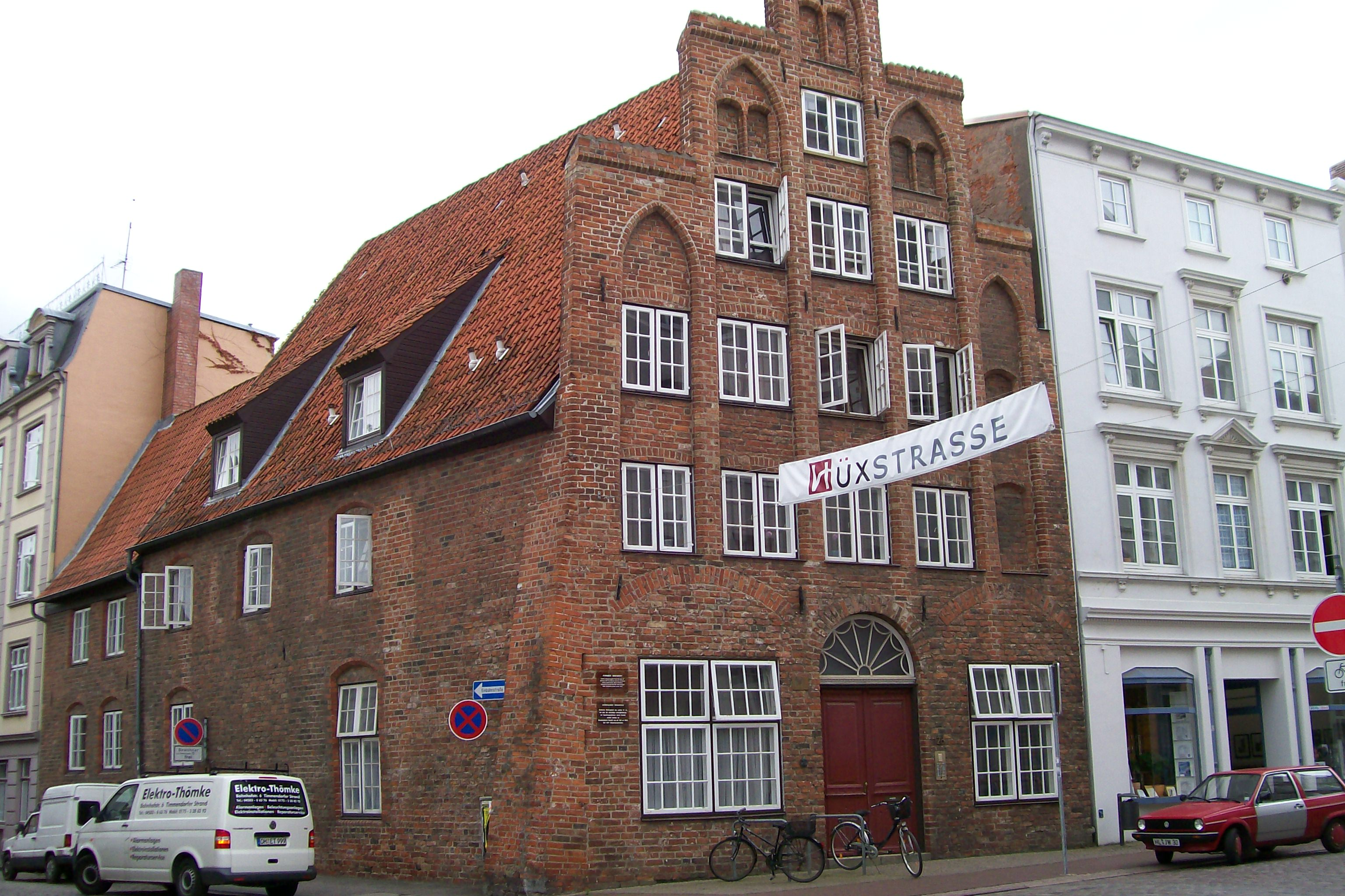 Hüxstraße 128 in Lübeck, former brewery with stepped gable from 15th century, now used for student housing. Located at the corner to An der Mauer.